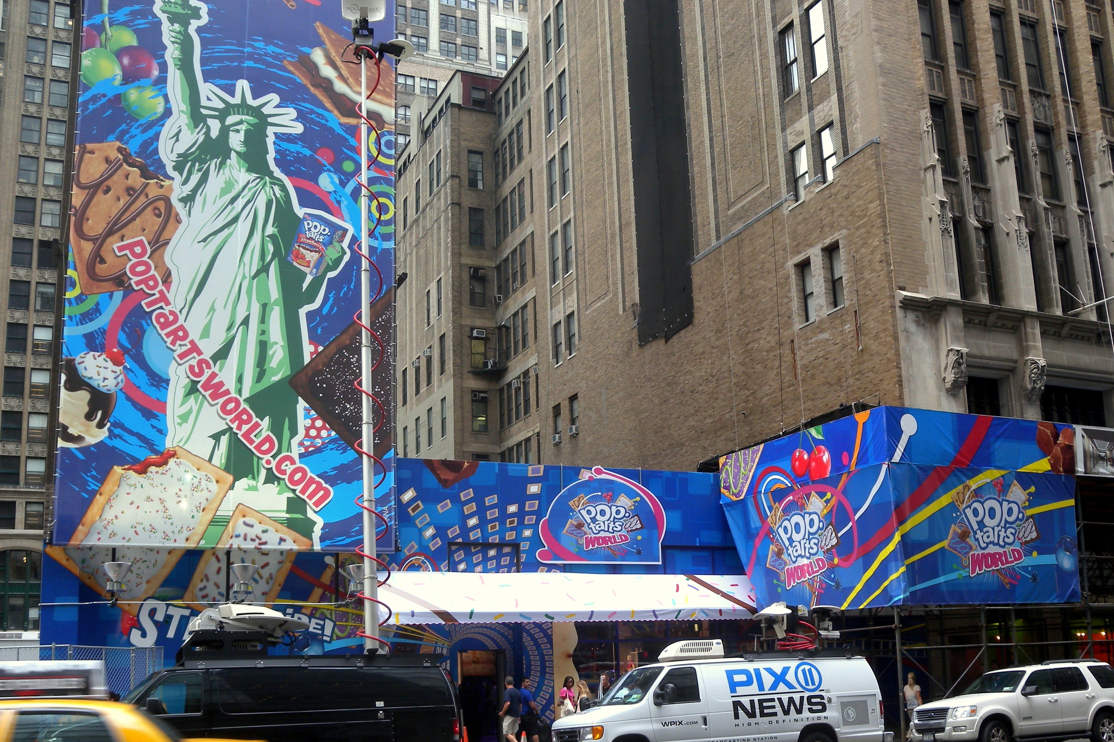 Looking southwest across 42nd Street as television vans cover grand opening of Pop Tarts World. Bush Tower in background right.